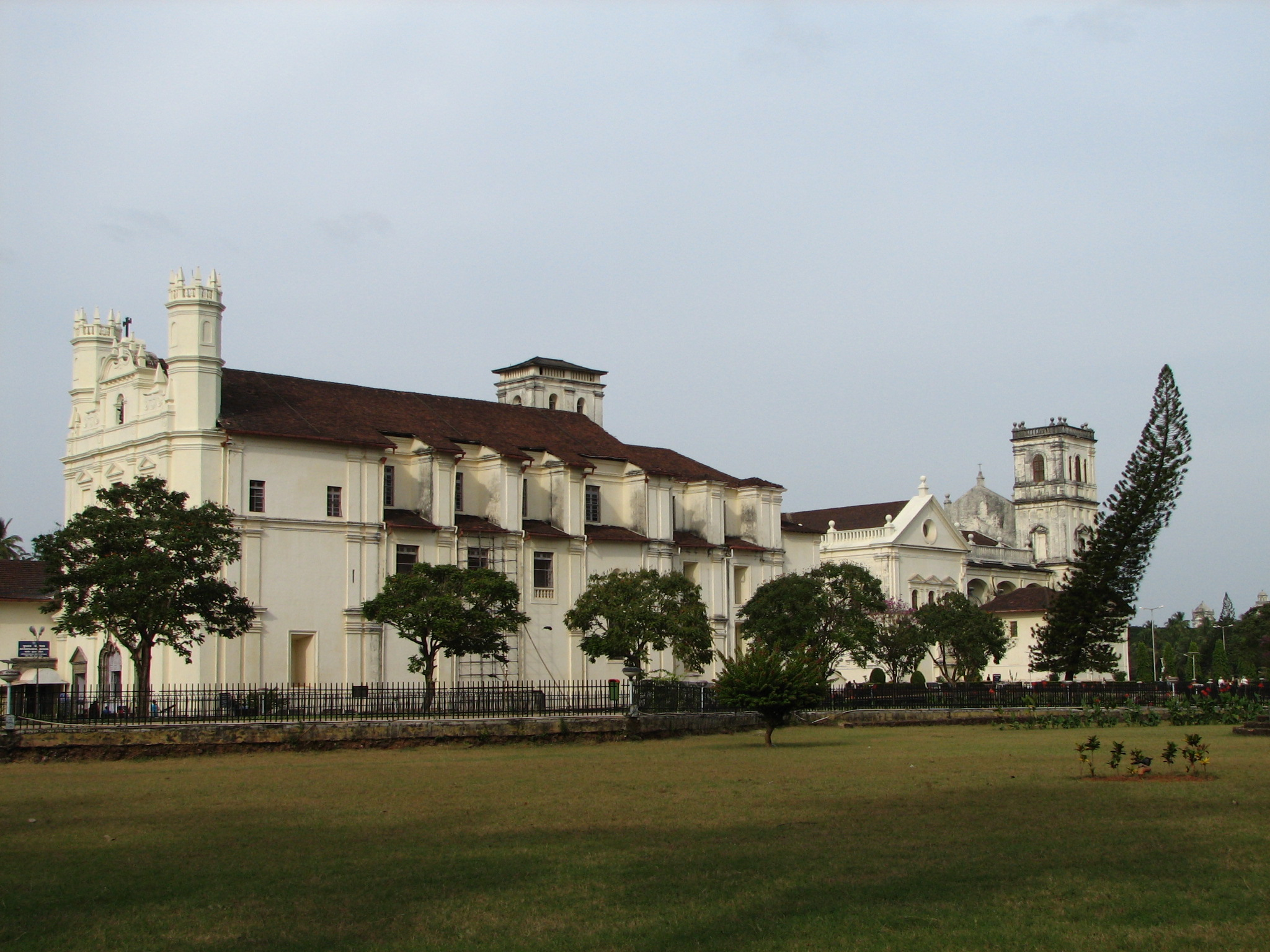 The Portuguese Se Cathredral